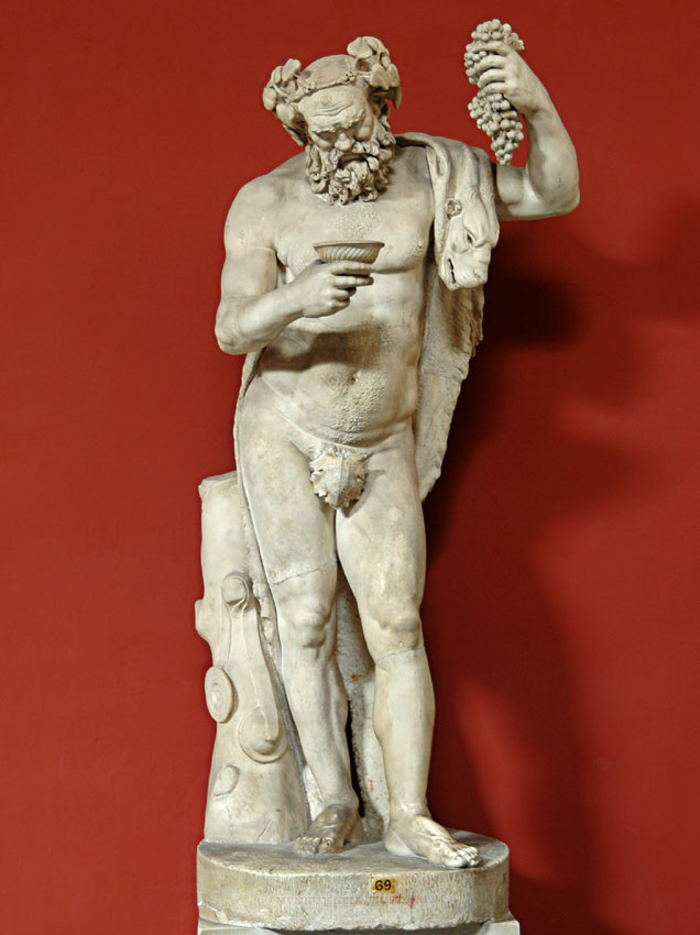 Marble. Roman copy of the imperial era after a Hellenistic original. Inv. No. 323. Rome, Vatican Museums, Pius-Clementine Museum, Room of the Muses, 69 (Musei Vaticani, Museo Pio-Clementino)